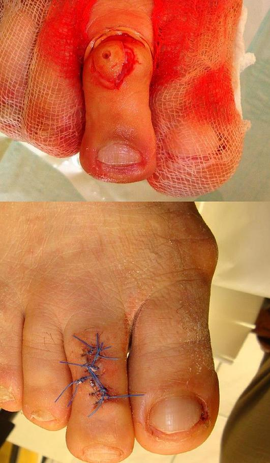 Plantar warts removal